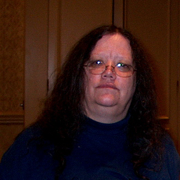 Debra Doyle and Jim MacDonald, fantasy and science fiction authors, at Readercon 2007